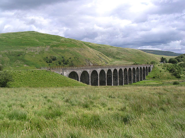 Shankend Viaduct This impressive 15-arch structure is a fine example of Victorian railway engineering in the 1860s on the former Waverley Line that ran between Edinburgh and Carlisle. The Waverley route was opened in 1862 and closed in 1969, but the bridge is still maintained by BRB (Residuary) Limited. Major repairs to waterproof the deck and refurbish the arches was completed in May 2007. The hill to the left is The Pike.